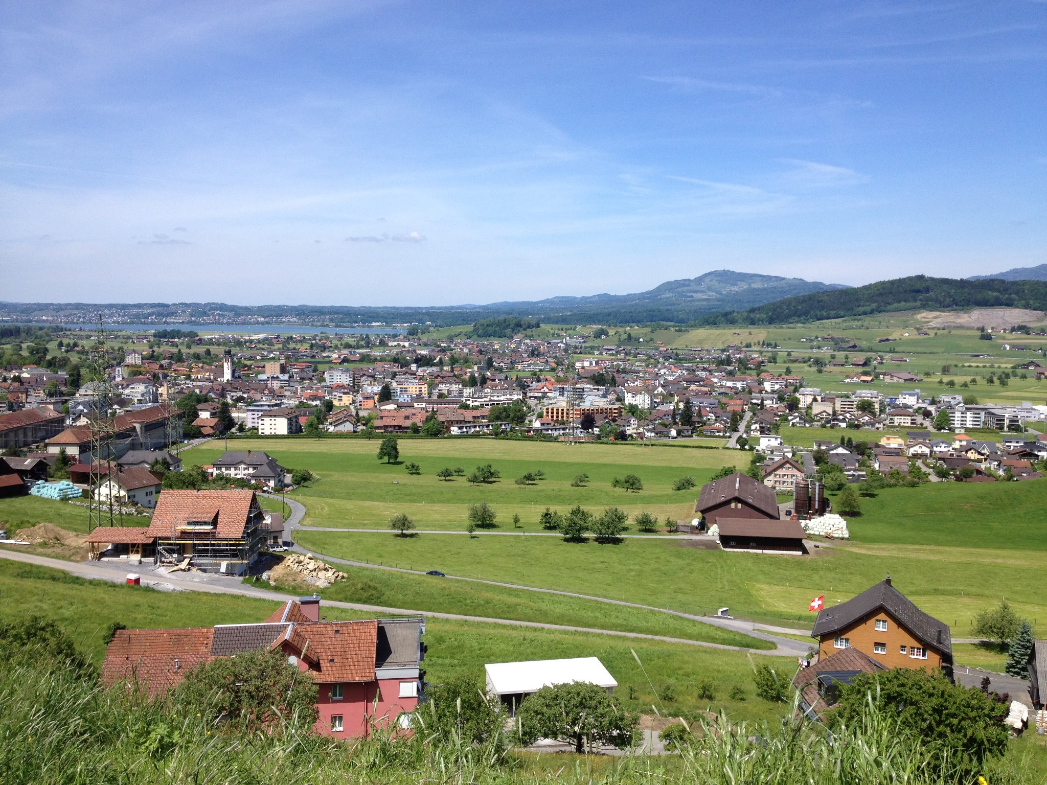 siebnen.2012